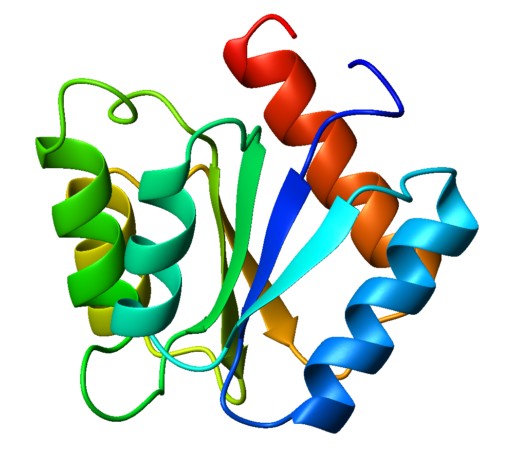 Ribbon diagram of CheY (a regulator of chemotactic response in bacteria, PDB accession code 3CHY), which adopts the flavodoxin fold. Made with MOLMOL.